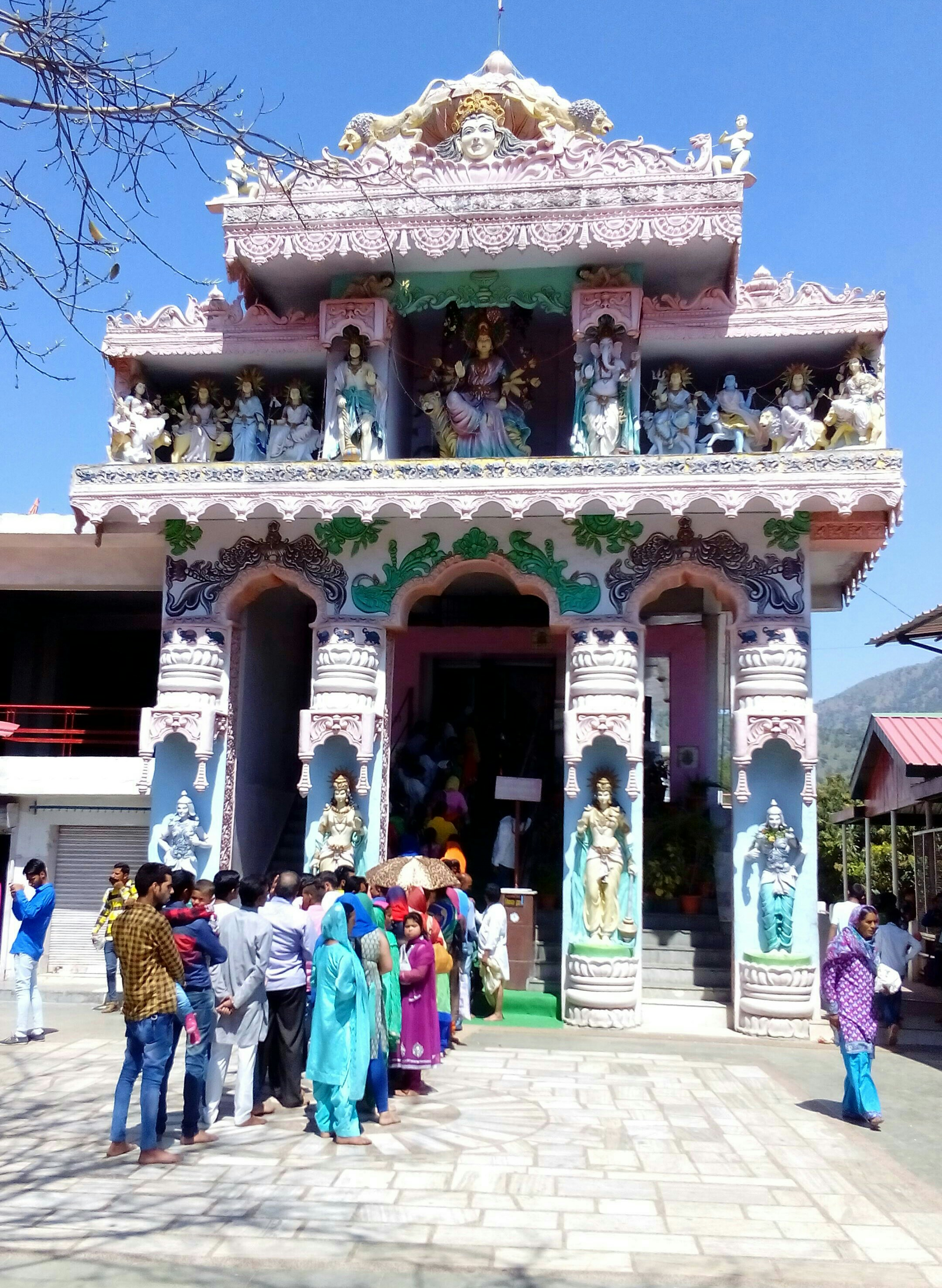 Front view of the temple during festivals.